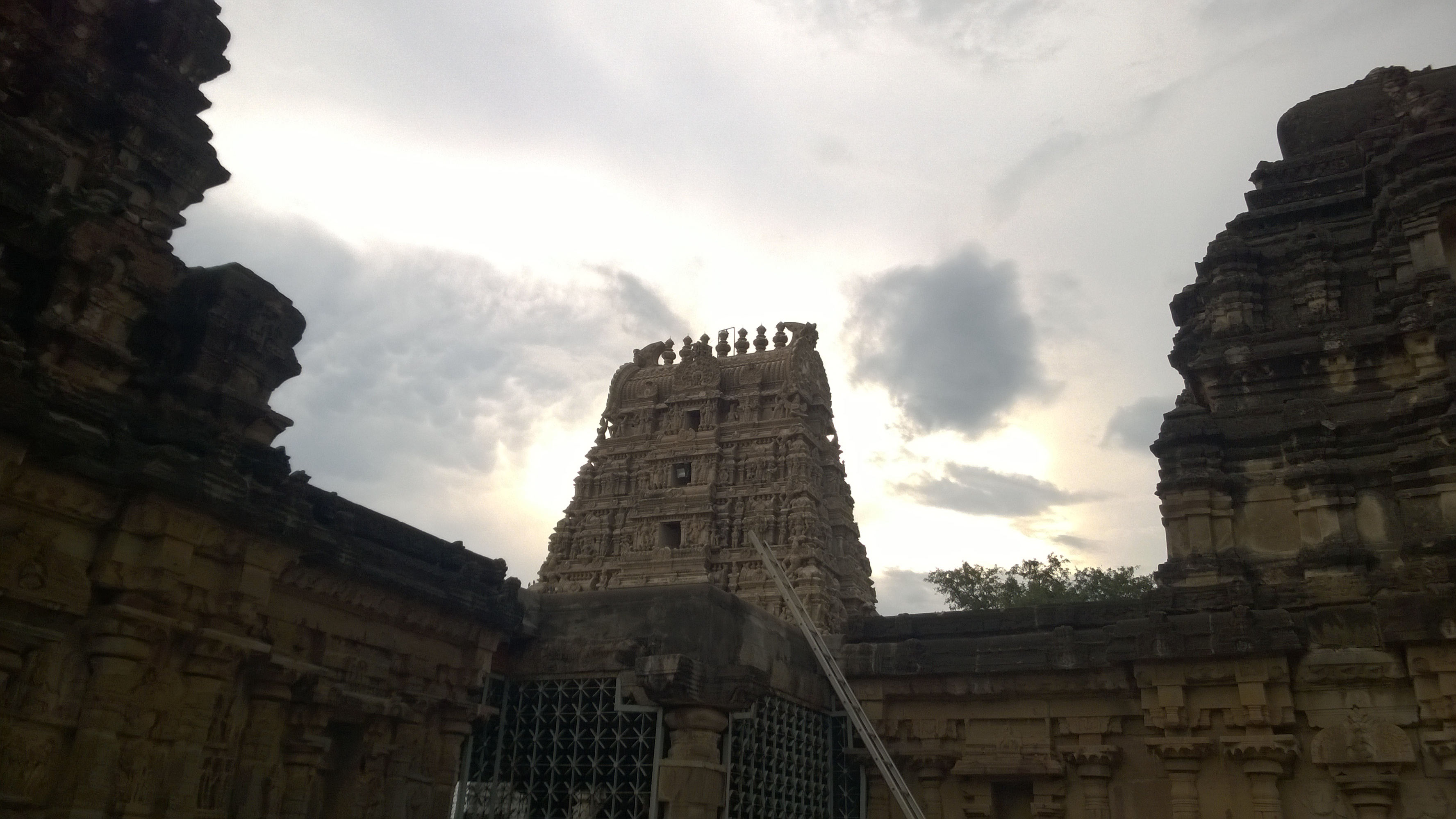 Main gopuram of the temple